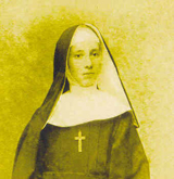 Eurosia Alloatti